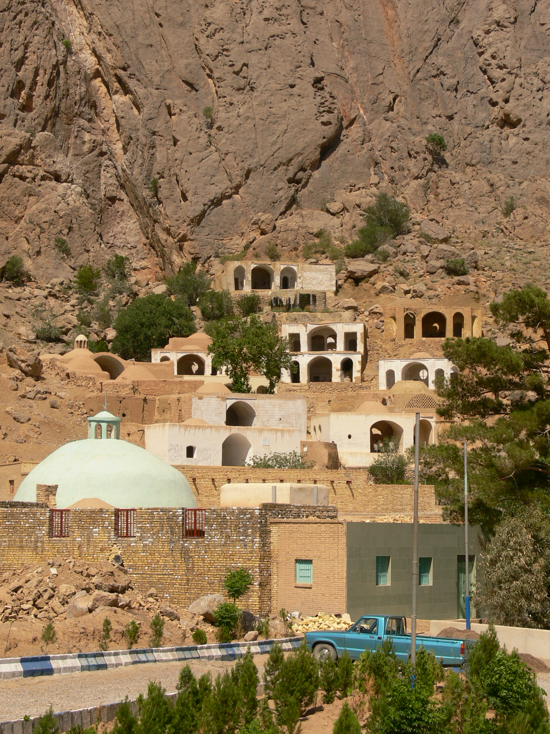 Pir-e-Naraki Sanctuary in Yazd A Zoroastrian pilgrimage place in Iran